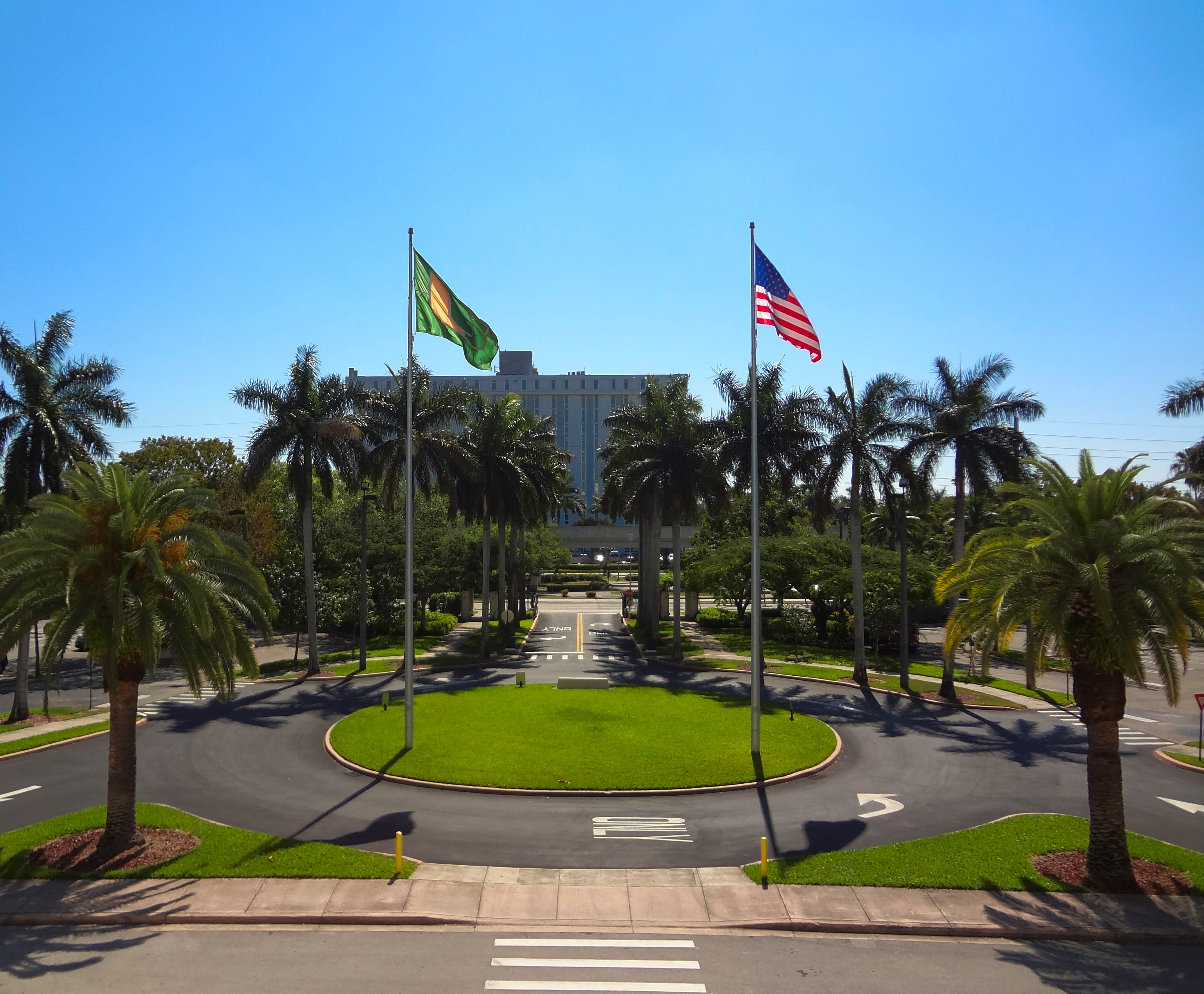 Main Gate at University of Miami, Florida